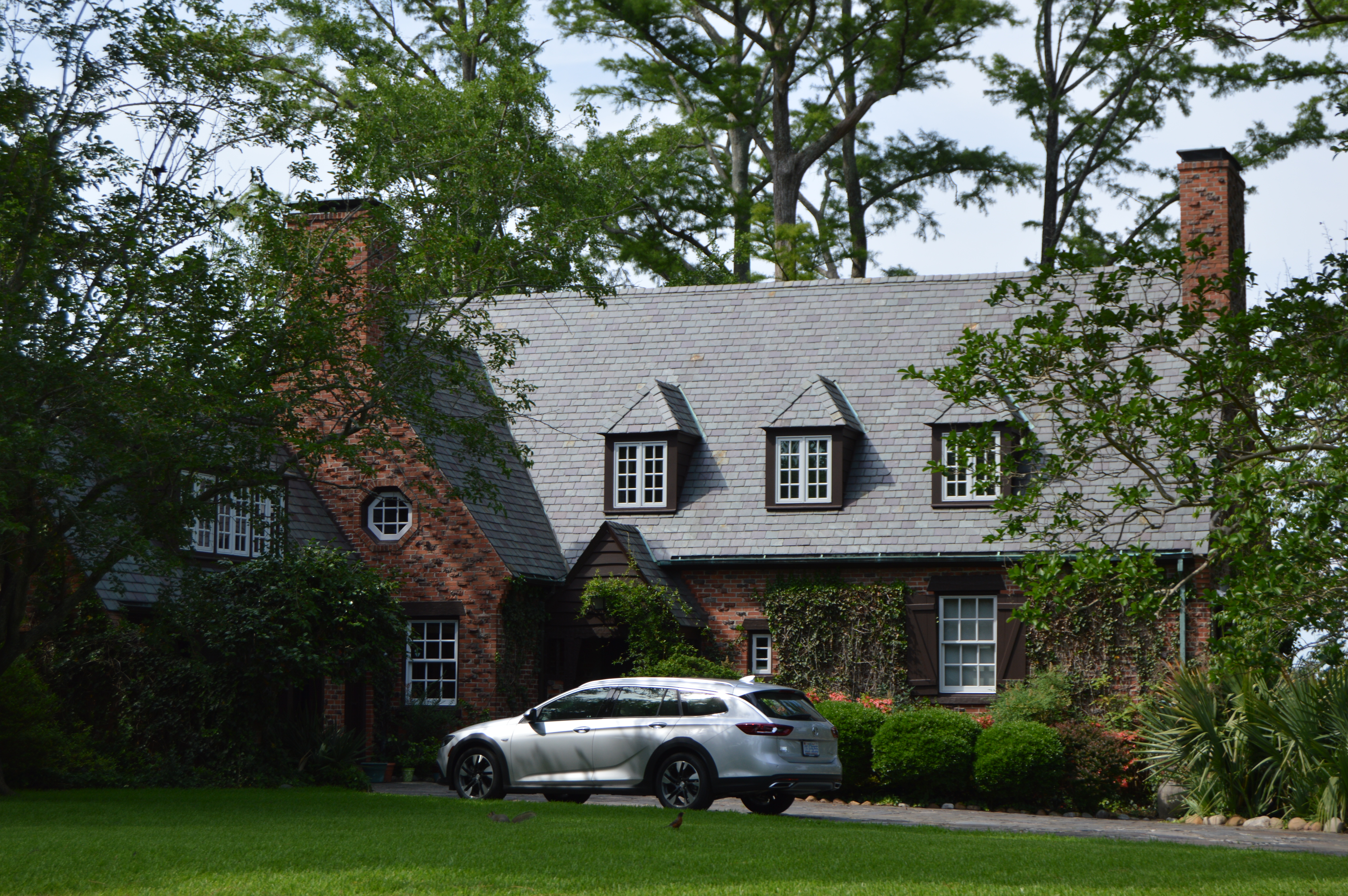 Front of the Harold Foreman House, located at 1116 Riverside Avenue in Elizabeth City, North Carolina, United States. Built in 1935, it is part of the Riverside Historic District, a historic district that is listed on the National Register of Historic Places.